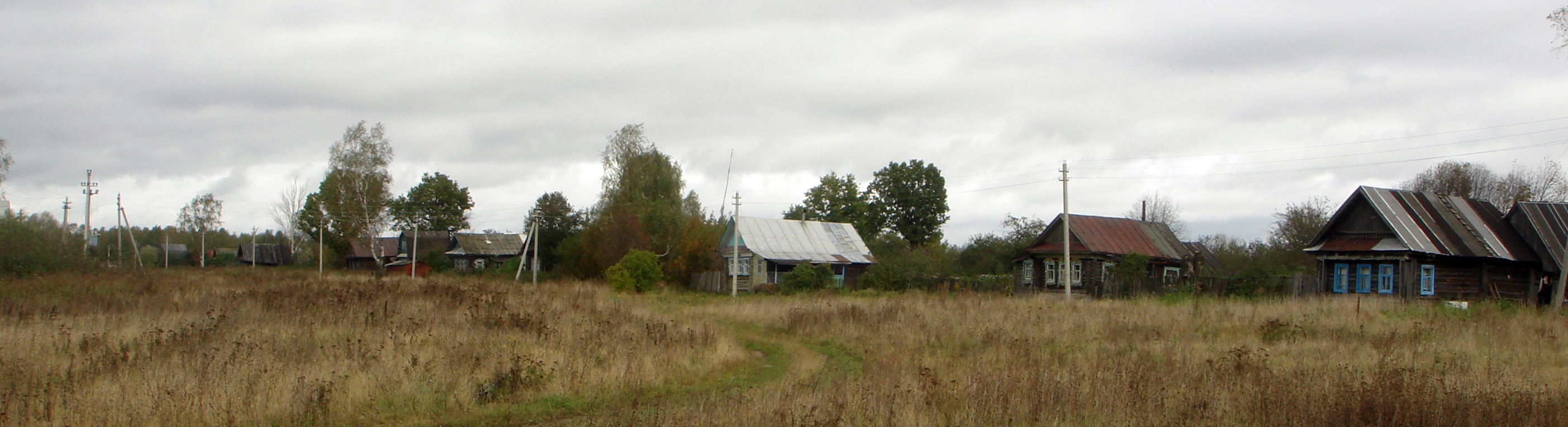 Southside of the village of Kokaryovka, Arzamassky District of Nizhny Novgorod Oblast, Russia.